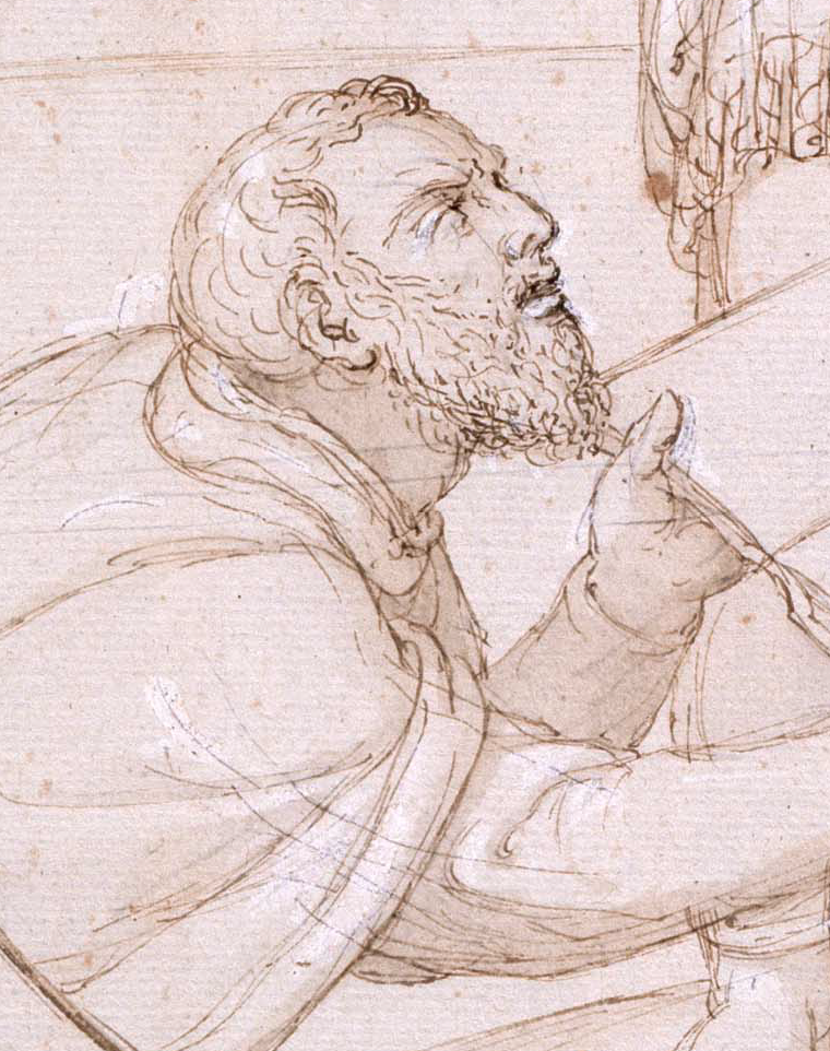 Self-portrait of Francisco de Holanda in his De Aetatibus Mundi Imagines: the artist presenting his book to the "malitia temporis," the malice of the ages.